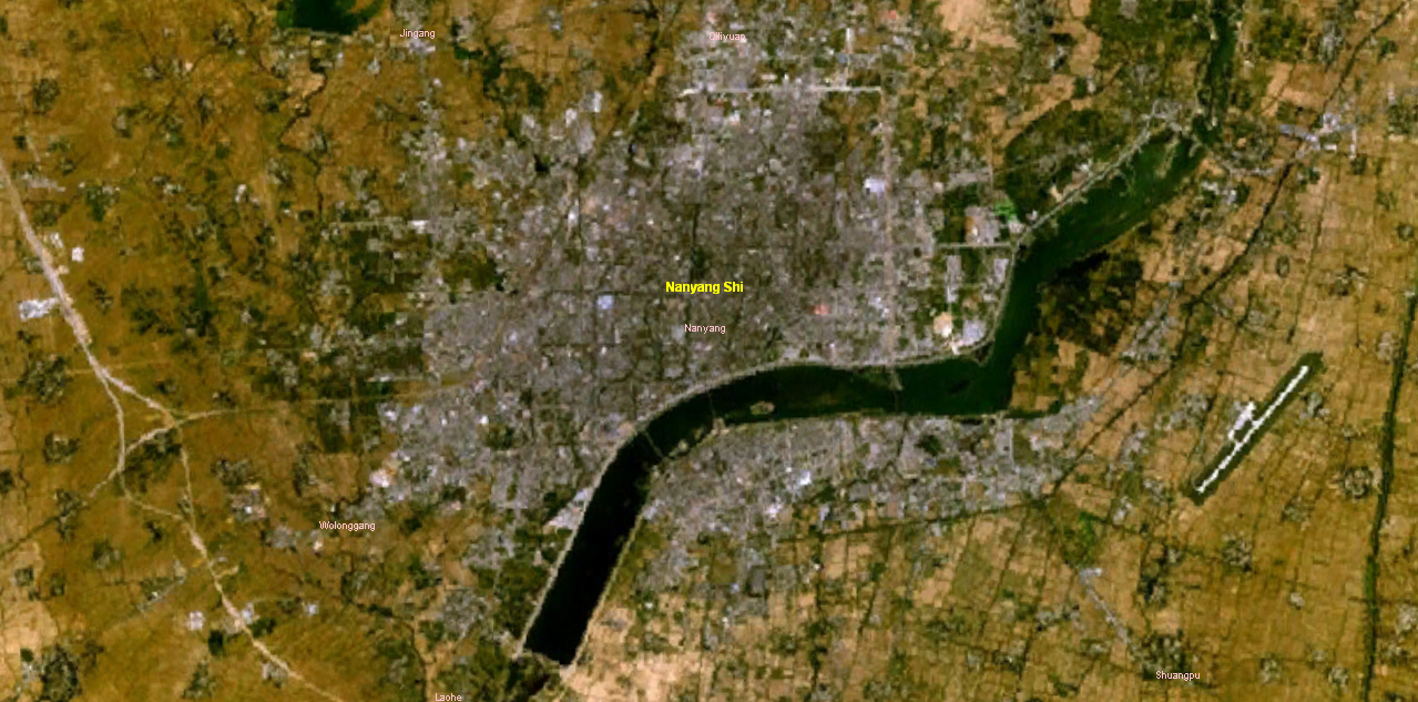 Image courtesy of Earth Sciences and Image Analysis Laboratory, NASA Johnson Space Center. [1].